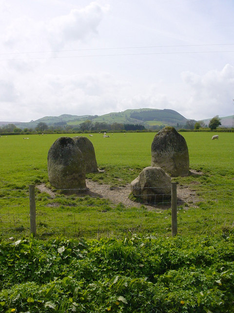 The Four Kings Megalithic stone circle around 12 foot in circumference. Local legend tells "There was a great battle fought here, and four kings were killed. The Four Stones were set up over their graves" (Kington Workhouse, 1908.). In WH Howse's 'Radnorshire' of 1949, the author mentions that at the time of writing many farmers still felt in awe of the stones. The hay was left unmown around them and some people avoided going near them after dark.